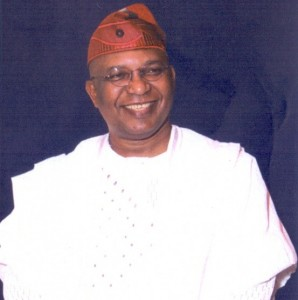 Engr Chris Ogiemwonyi, All Progressive Congress (APC) Governoship Aspirant Edo State 2015 General election in Nigeria